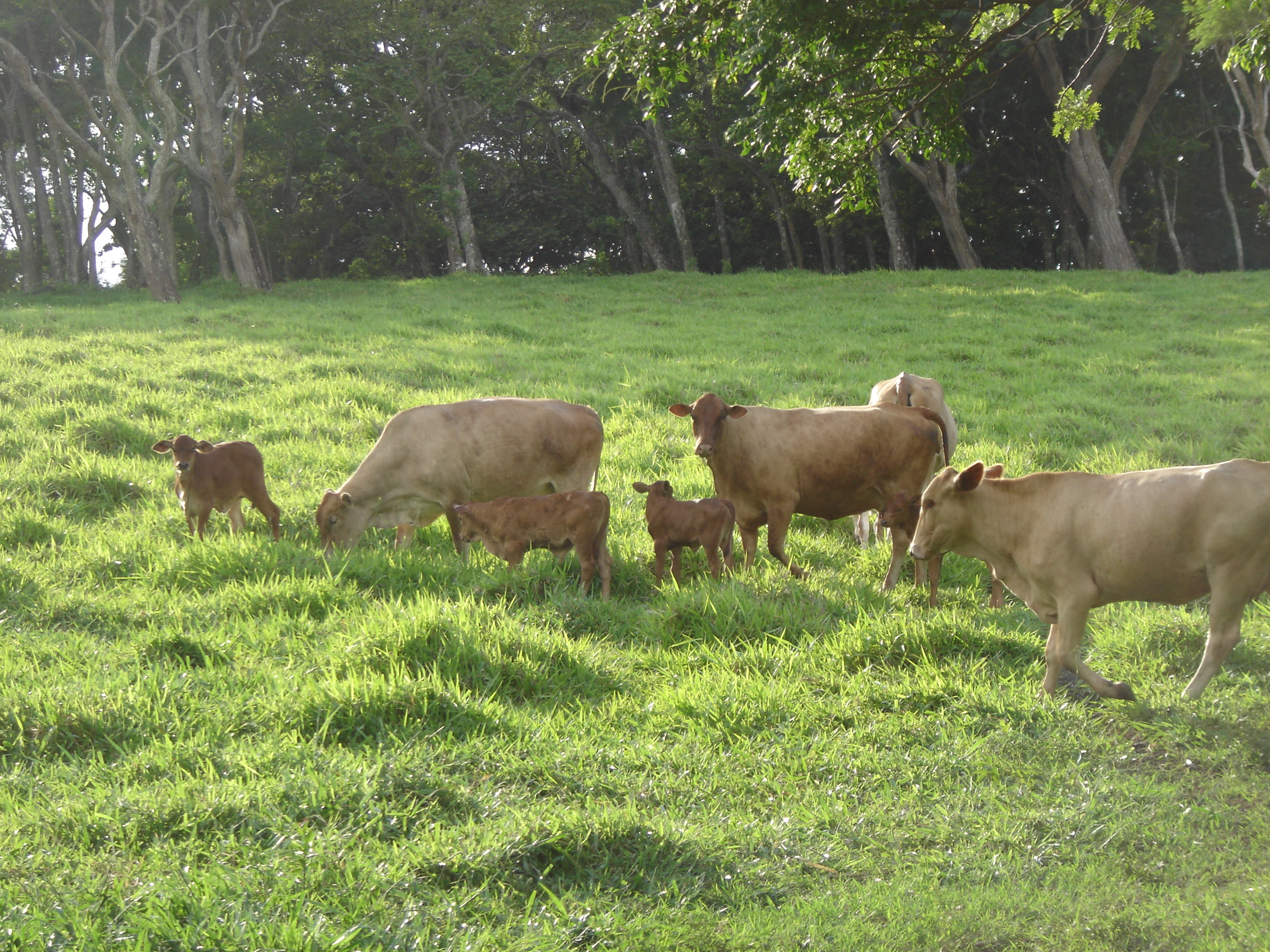 Cows and calves of the Romosinuano breed indigenous to South America.